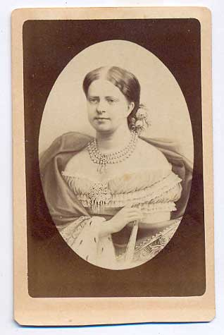 Princess Maria Clotilde of Savoy (1843-1911), Italian king Victor Emmanuel II's daughter.